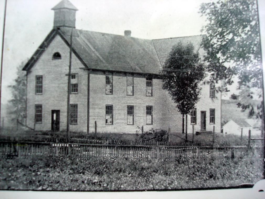 Historic Photo of the Academy in Hillsboro